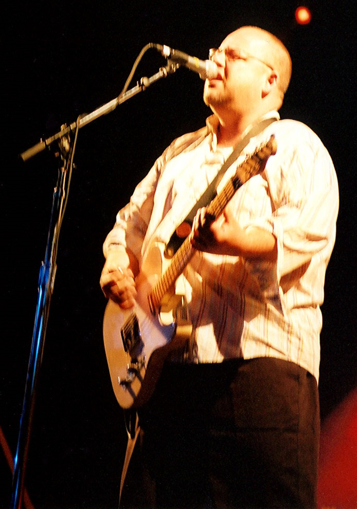 Black Francis (or Frank Black) of the Pixies.